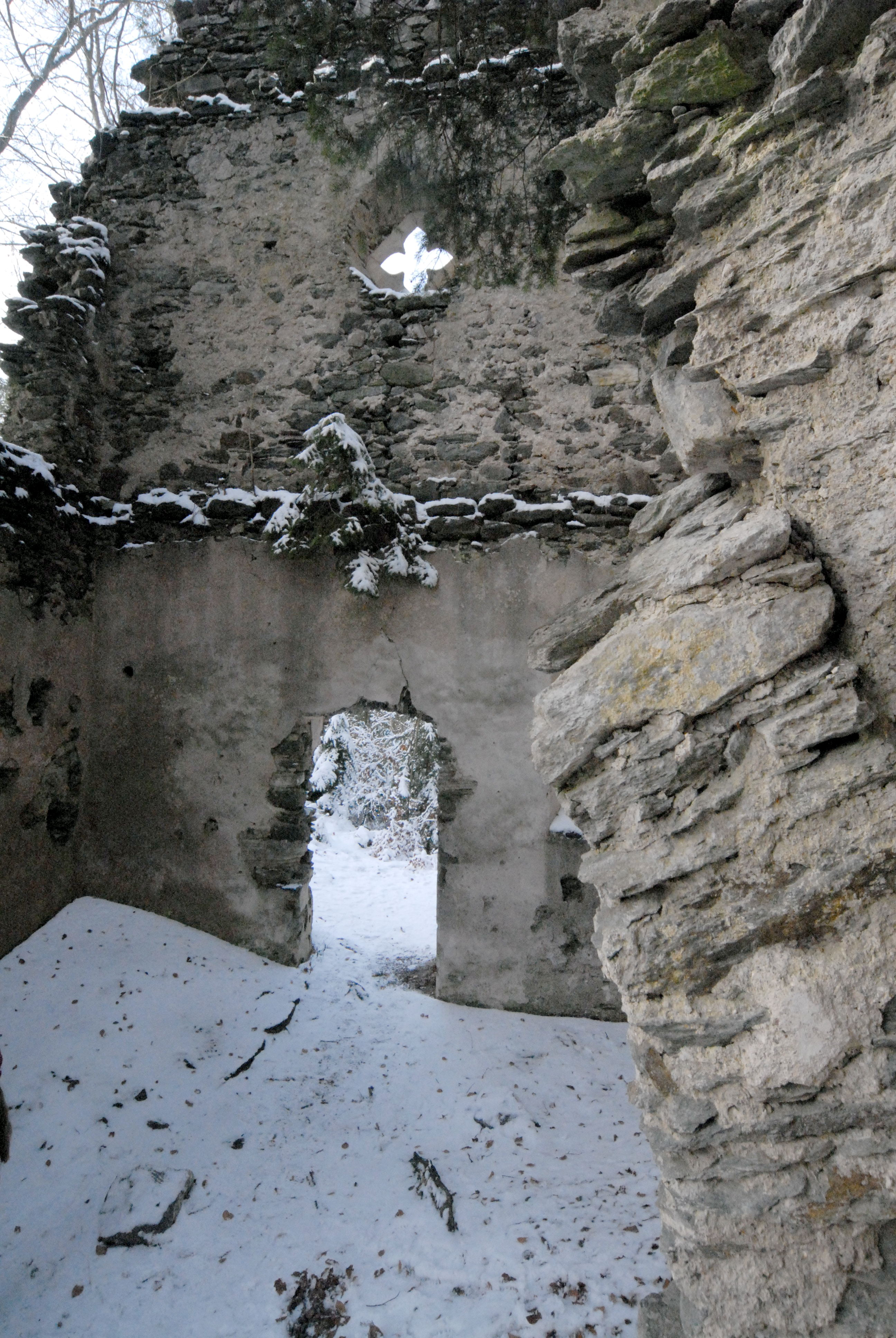 Ruin of the "black castle" Hohenwart in Köstenberg, market town Velden am Wörther See, district Villach Land, Carinthia, Austria, EU